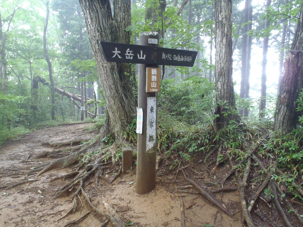 Top of Mount Nabewari in Okutama Town, Tokyo, Japan